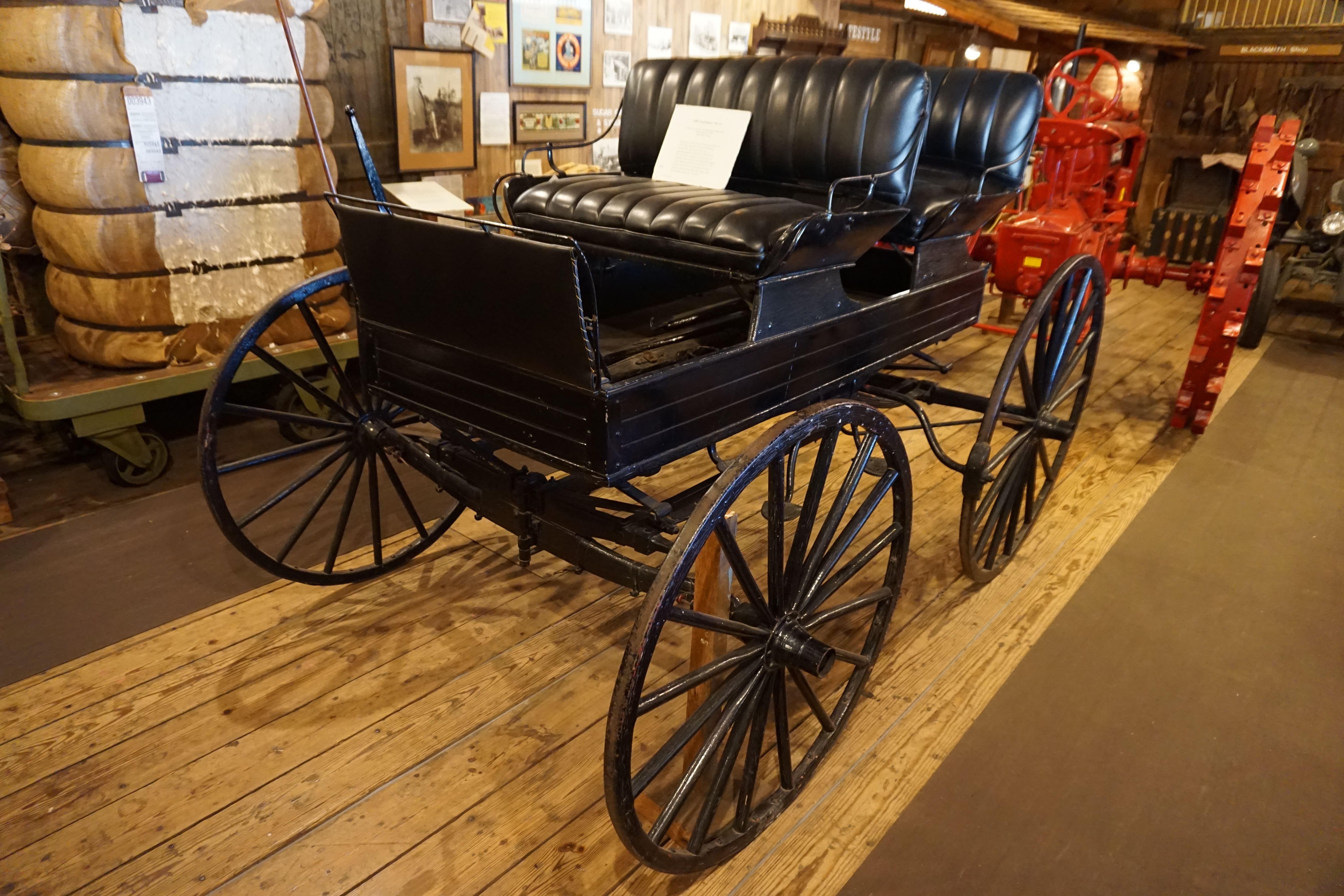 A 1909 Studebaker surrey on display at the Northeast Texas Rural Heritage Center and Museum in Pittsburg, Texas (United States).